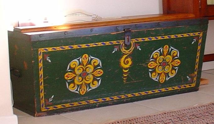 Painted kist from South African colonial past